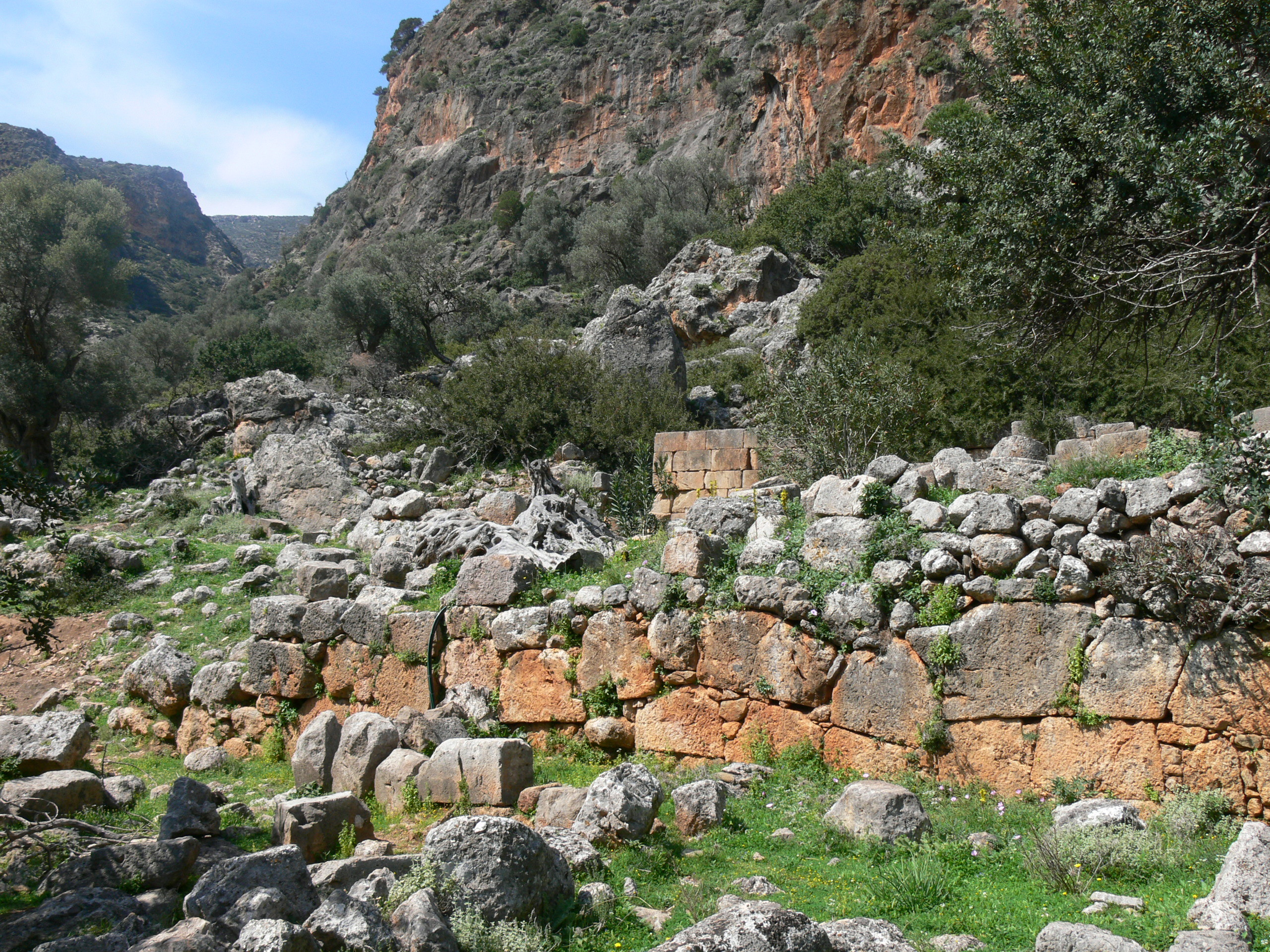 Lisos, Crete. Sanctuary of Asklepios ( 3rd century BC ) - lower part.